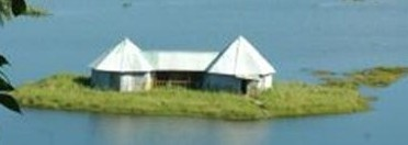 Loktak Lake view from Sendra Hill